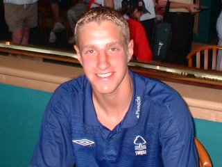 Photo of Michael Dawson at Nottingham Forest taken in 2002. Taken with permission from